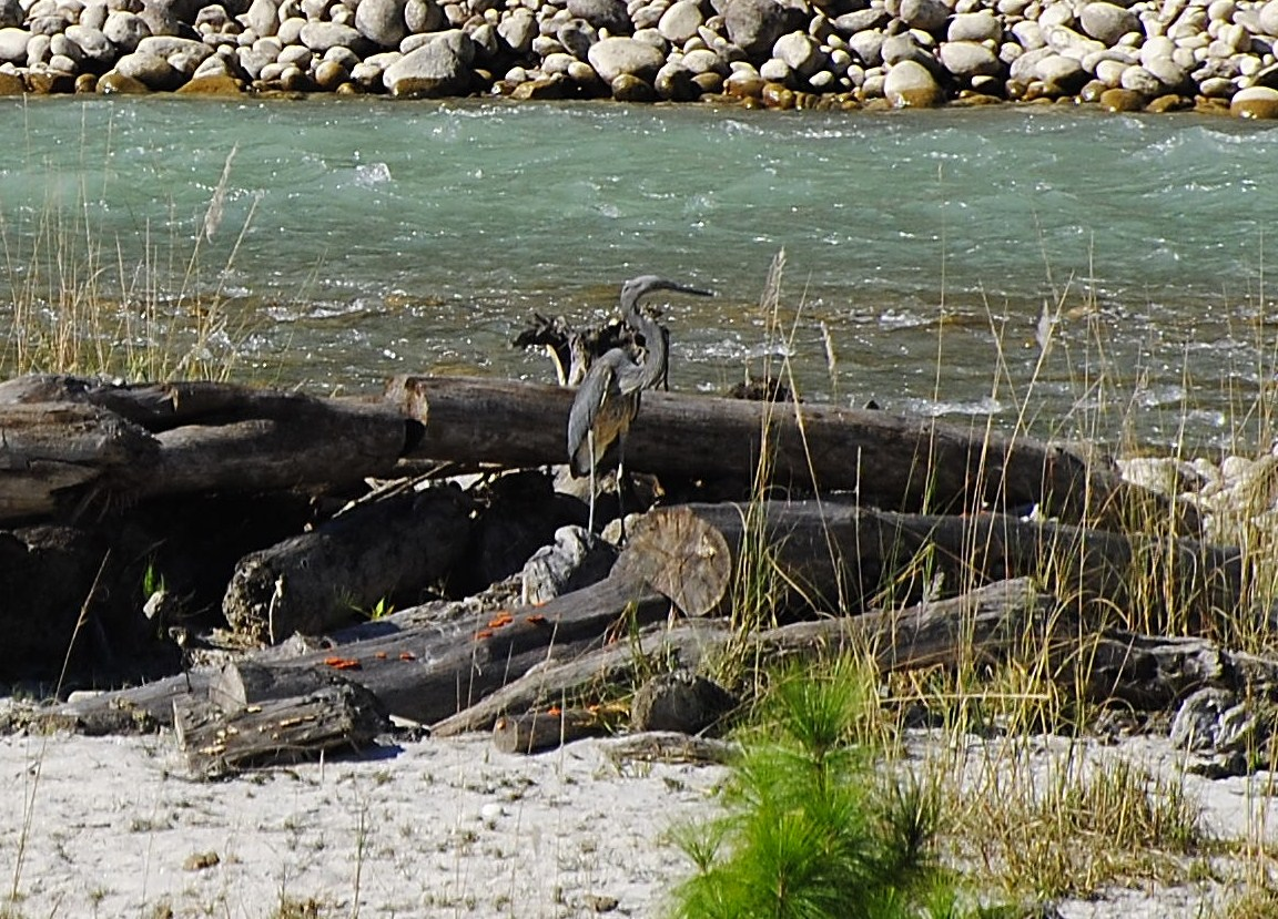 The Heron was found in the middle of the island-drier areas contrary to waterside as expected